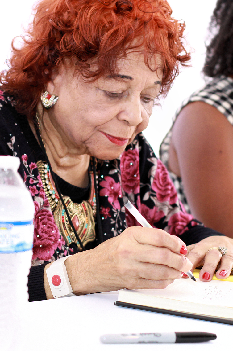 Judge Harriet Mitchell Murphy at the 2018 Texas Book Festival in Austin, Texas, United States.